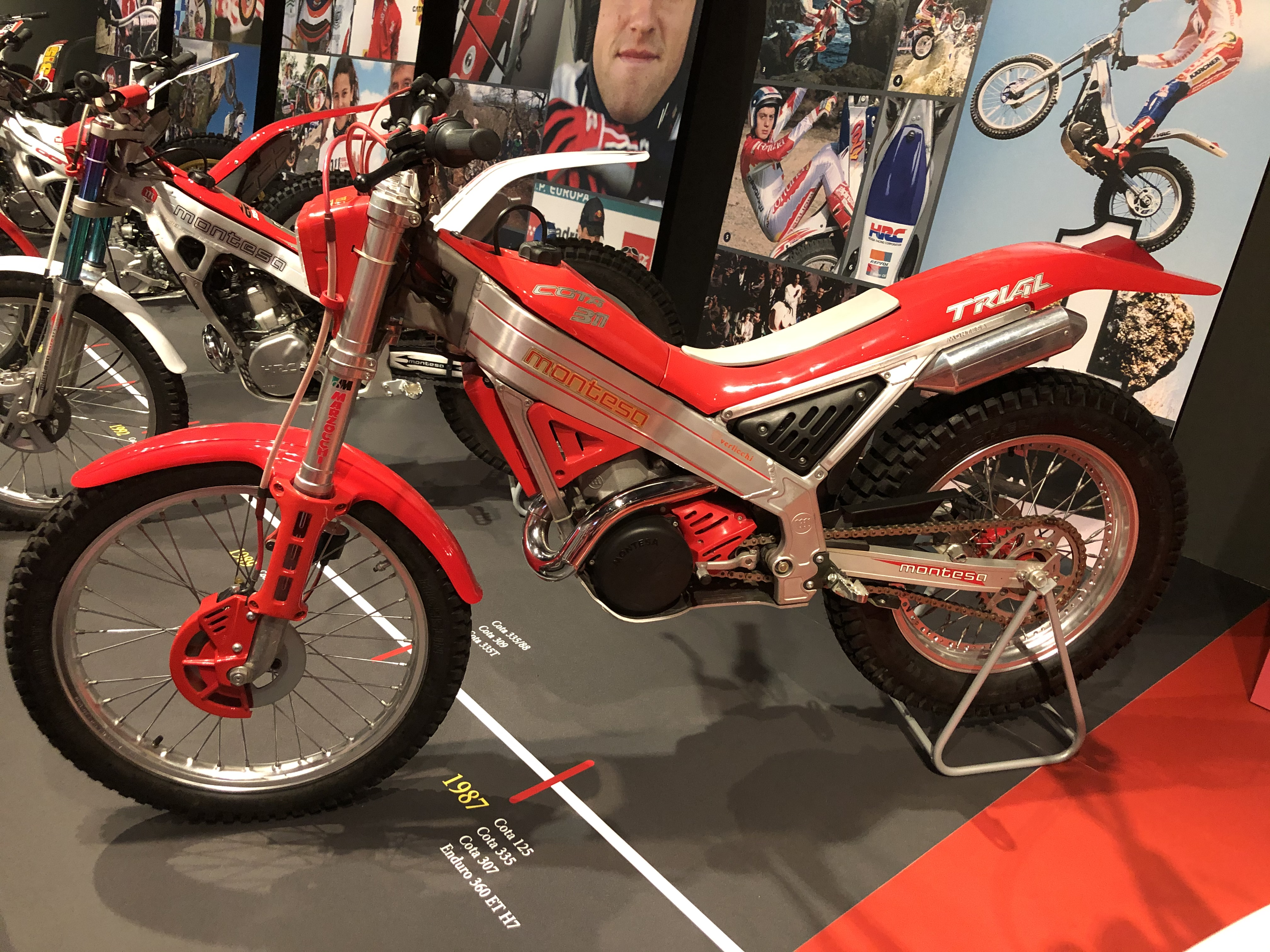 Montesa Cota 311 (1991), 237.5 cc